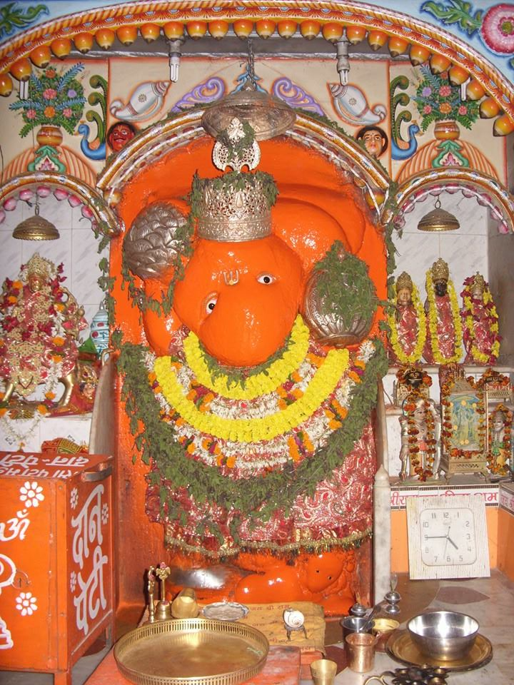 Samarth Ramdas Swami sthapit Maruti Varanasi